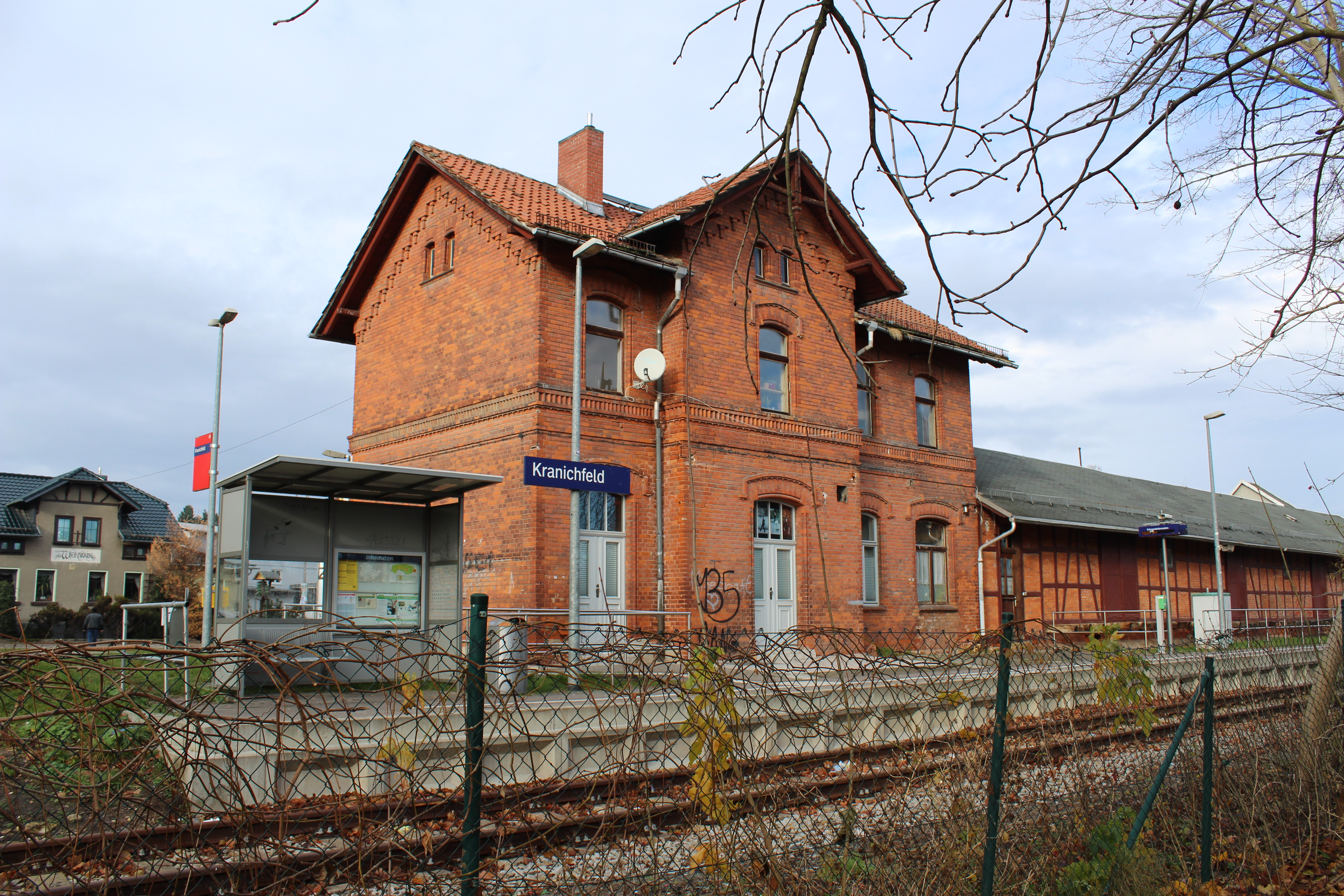 train station Kranichfeld, station building rail side